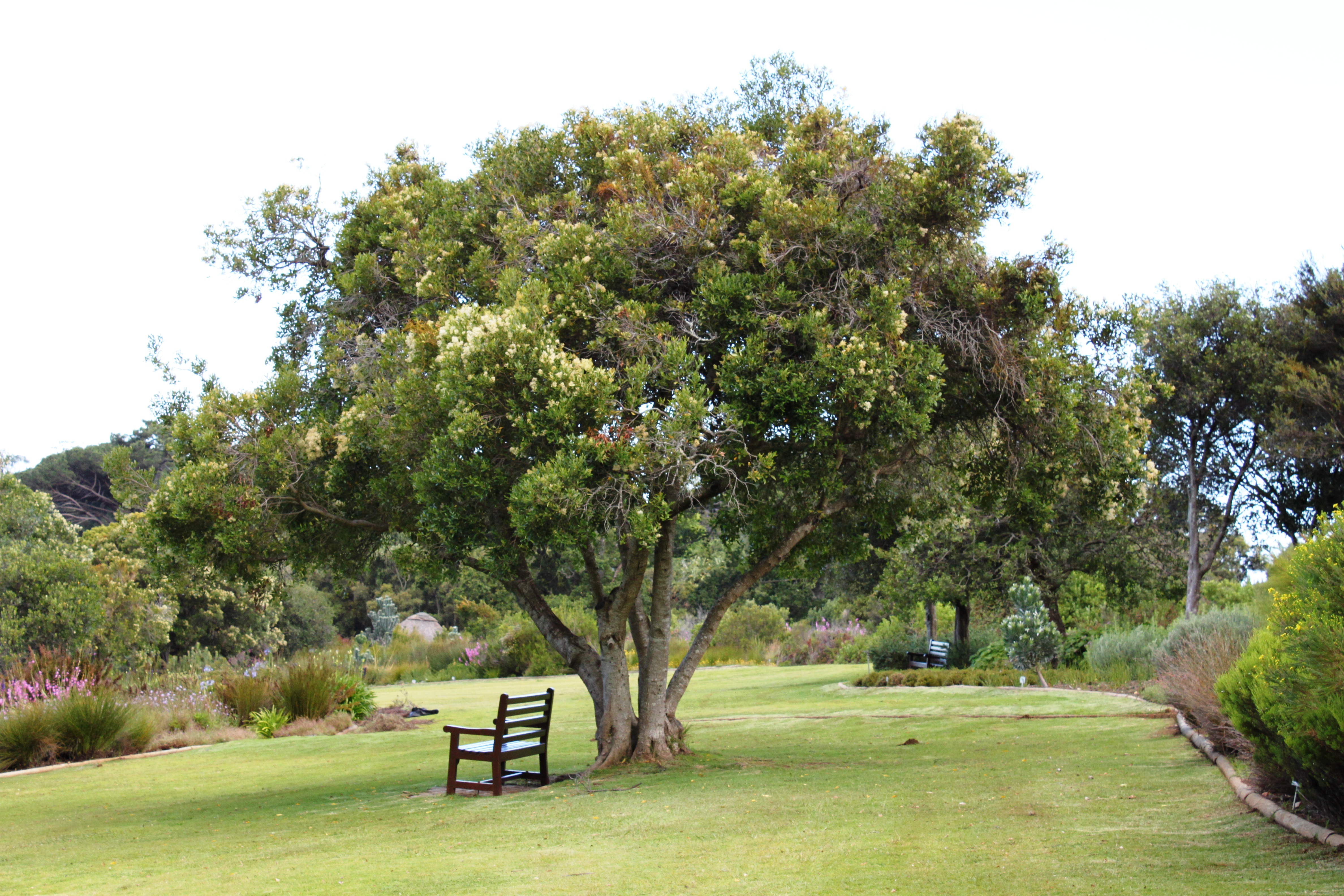 Ironwood tree. Olea capensis. South Africa.